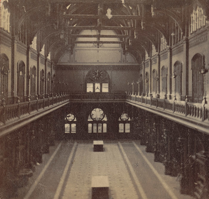 A circa-1875 stereo view of the waiting room of the newly built Boston and Providence Railroad terminal